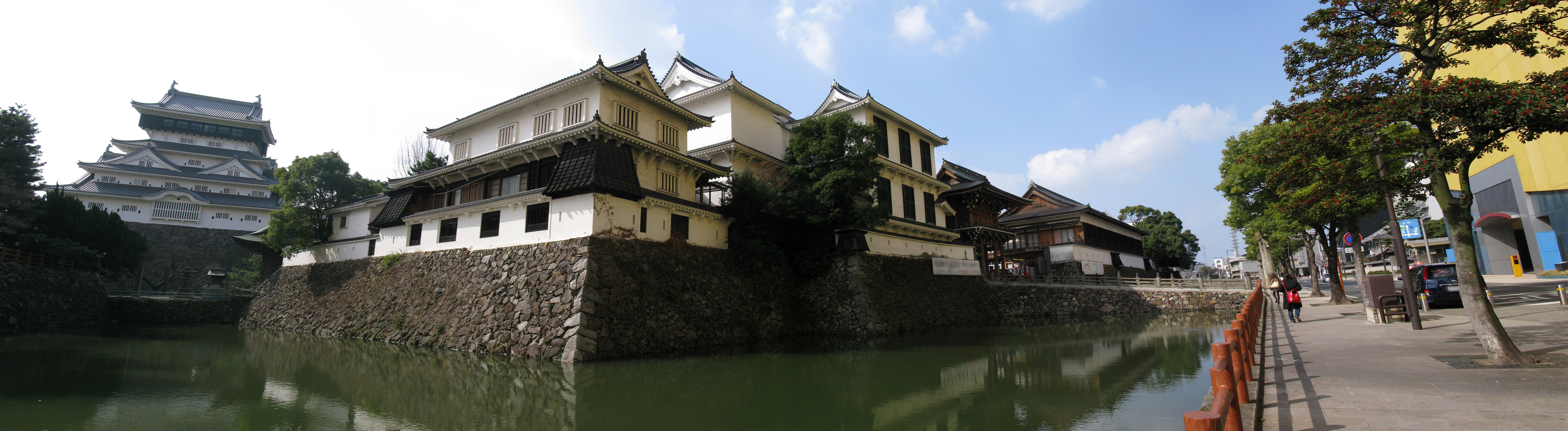 Kokura Castle